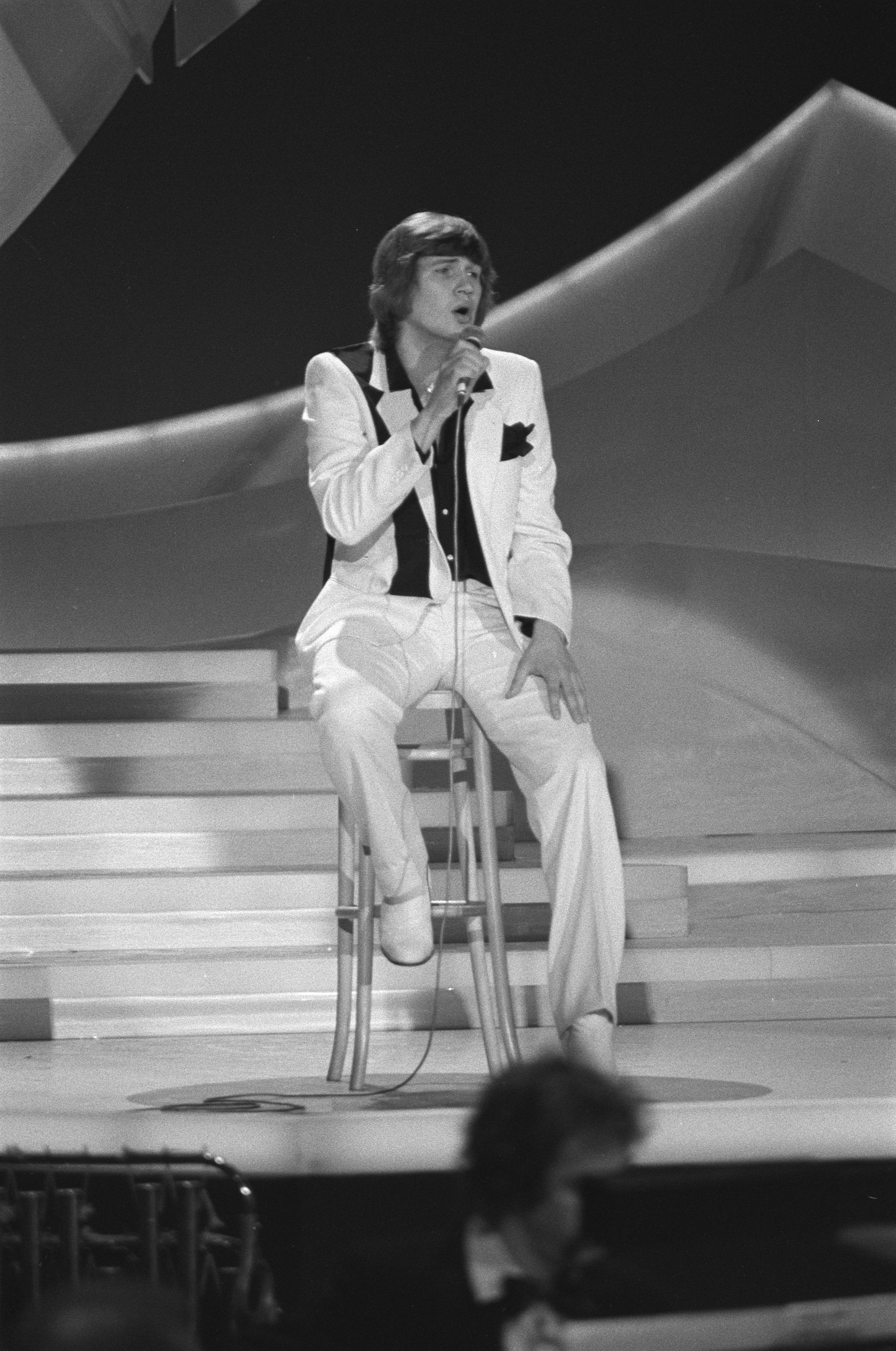 Johnny Logan during rehearsals for the Eurovision Song Contest 1980